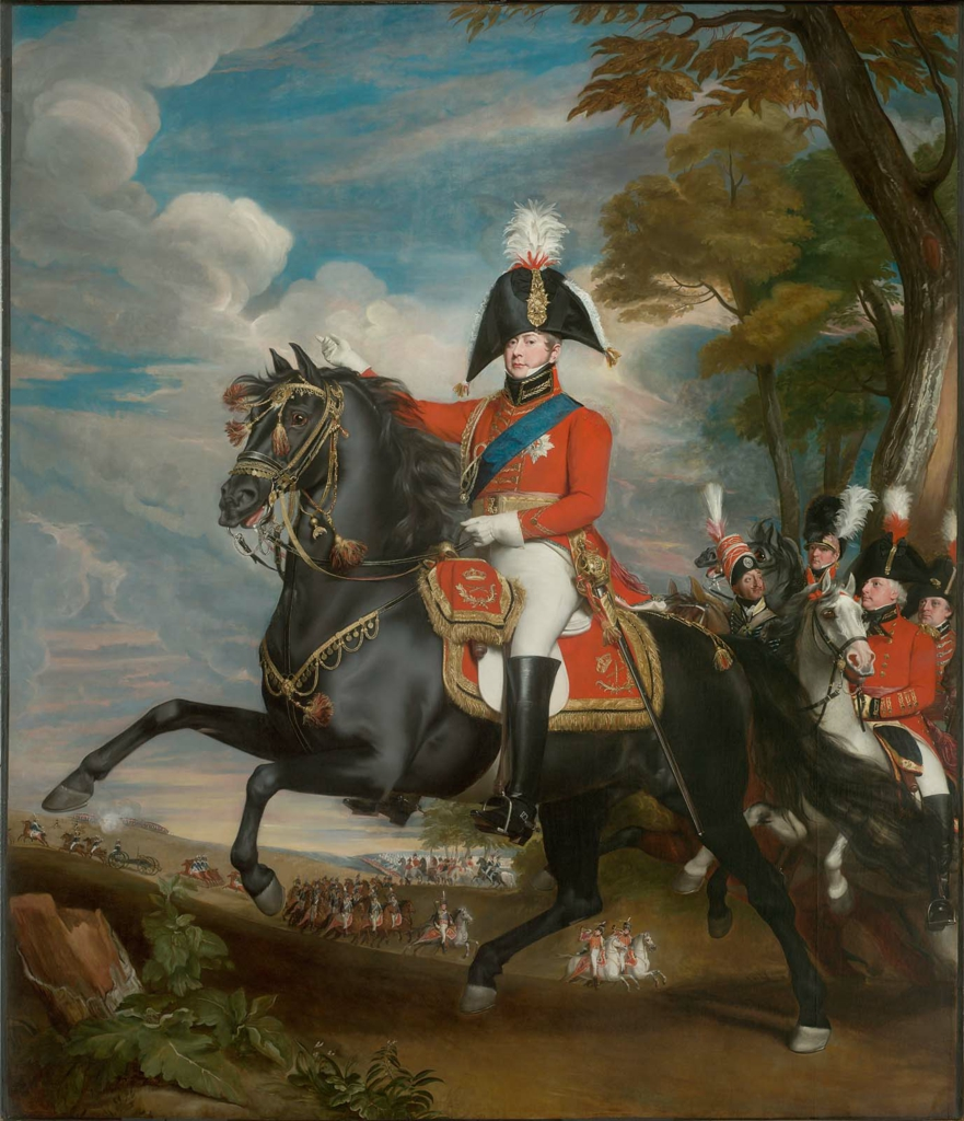 Portrait of H. R. H. the Prince of Wales at a Review, Attended by Lord Heathfield, General Turner, Col. Bloomfield, and Baron Eben; Col. Quinton in the Distance (George IV When Prince of Wales), (1762-1830)